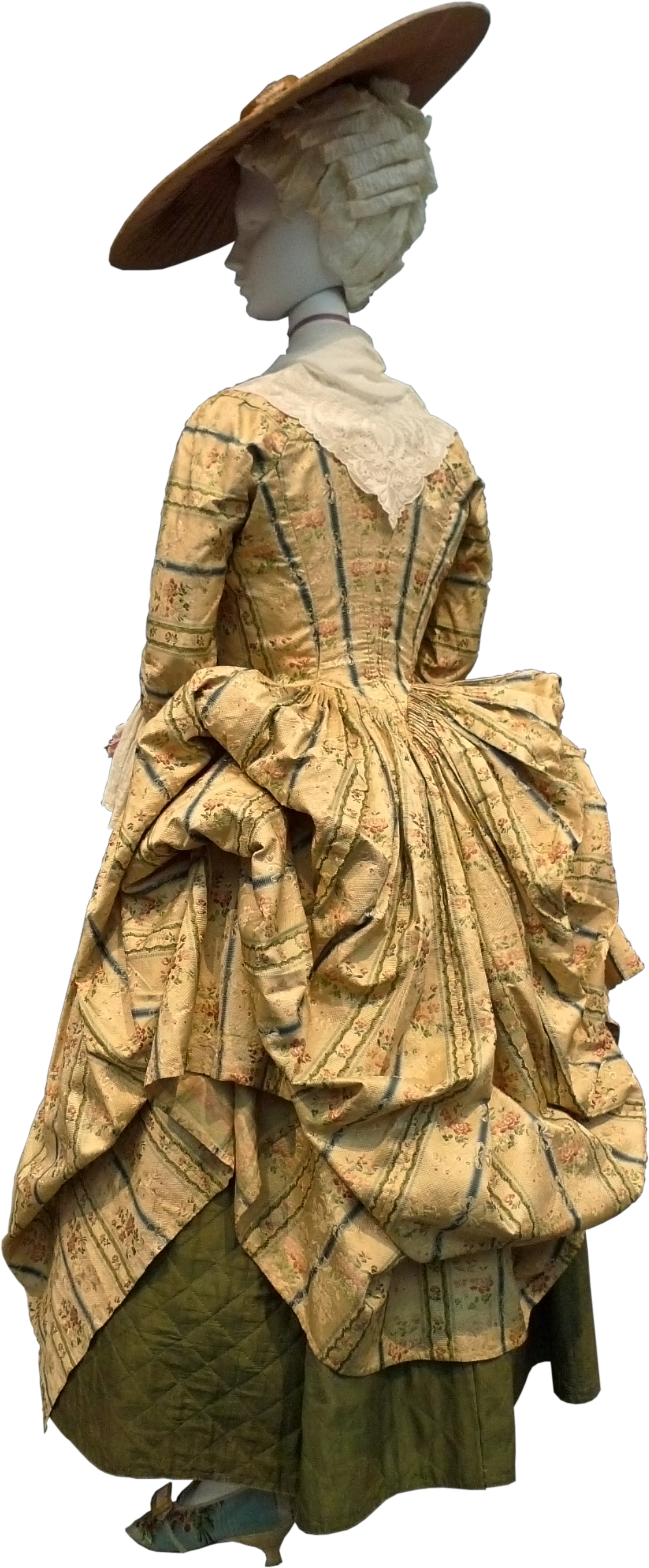 Robe à la Polonaise, France, c. 1775, plain-woven silk with supplementary warp- and weft-float patterning. M.70.85 Shown with quilted plain-woven silk petticoat, England, 1780s. M.59.25c. Hat (bergere), France, c. 1760. Straw and plain-woven cotton with silk ribbon, M.2001.556. Fichu, Europe, c. 1750-1800, plain-woven cotton muslin with linen embroidery, M.2007.211.479. Shoes, England, 1780-85, plain-woven silk with silk warp- and weft-float patterning, silk satin, and leather. M.81.3A-B. From the exhibition "Fashioning Fashion: European Dress in Detail, 1700-1915" at the Los Angeles County Museum of Art. (LACMA). On view from October 2, 2010 - March 6, 2011